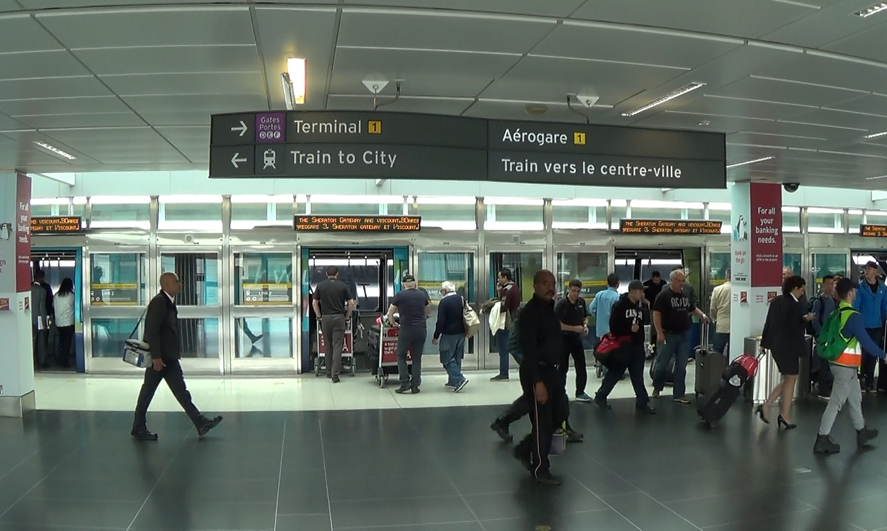 Riders boarding a Link train at Terminal 1 station